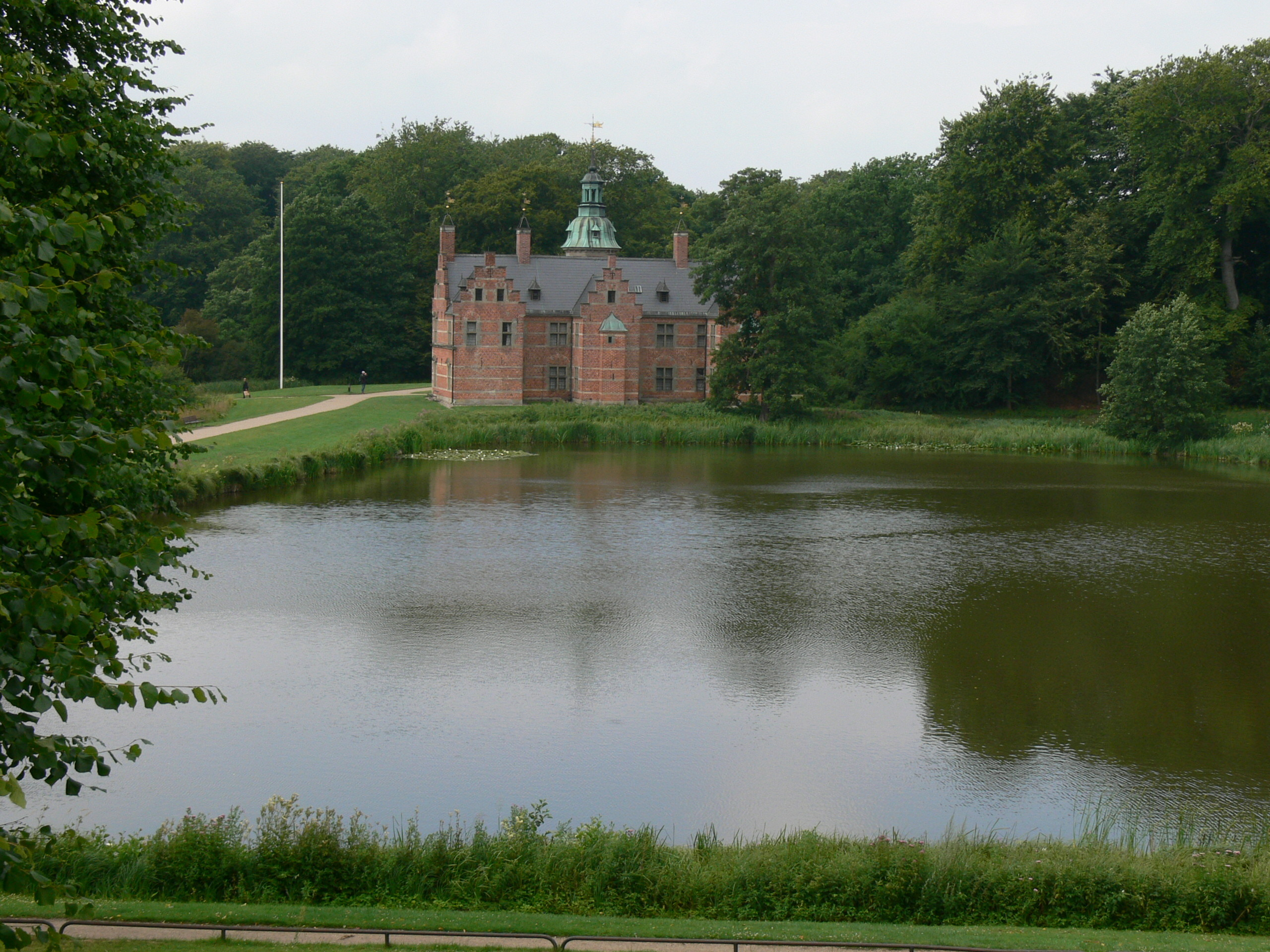 Frederiksborg palace. So called Bath house castle in the castle gardens.